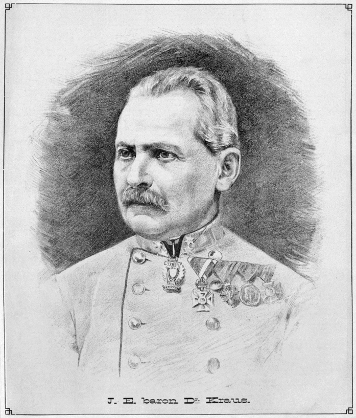 JUDr. Alfred Kraus (1824-1909) was Austro-Hungarian solider and politician.